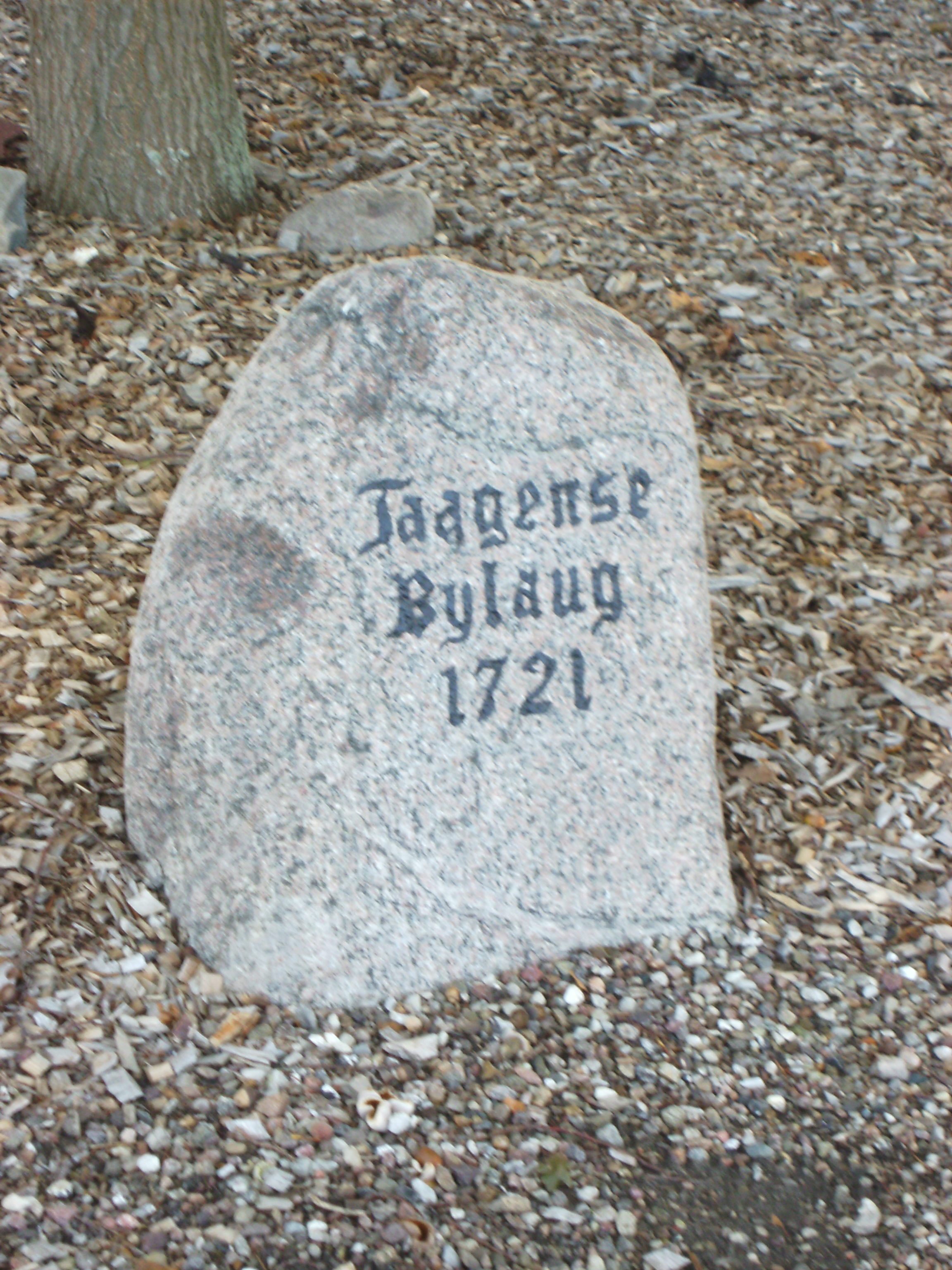 Tågense is a small village east of Nysted, Denmark - Meeting place